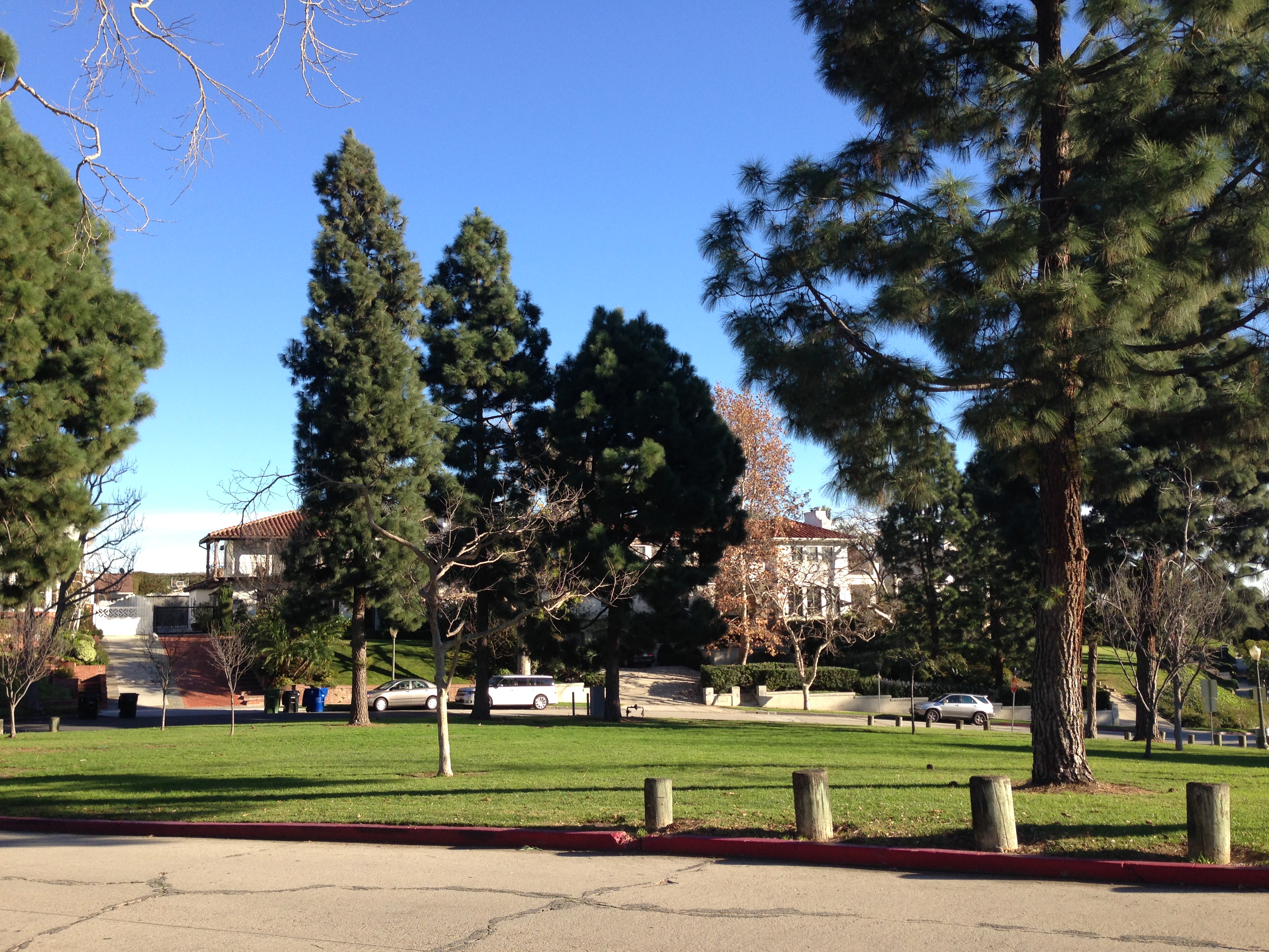 Club Circle Park in the Cheviot Hills neighborhood of Los Angeles, California.